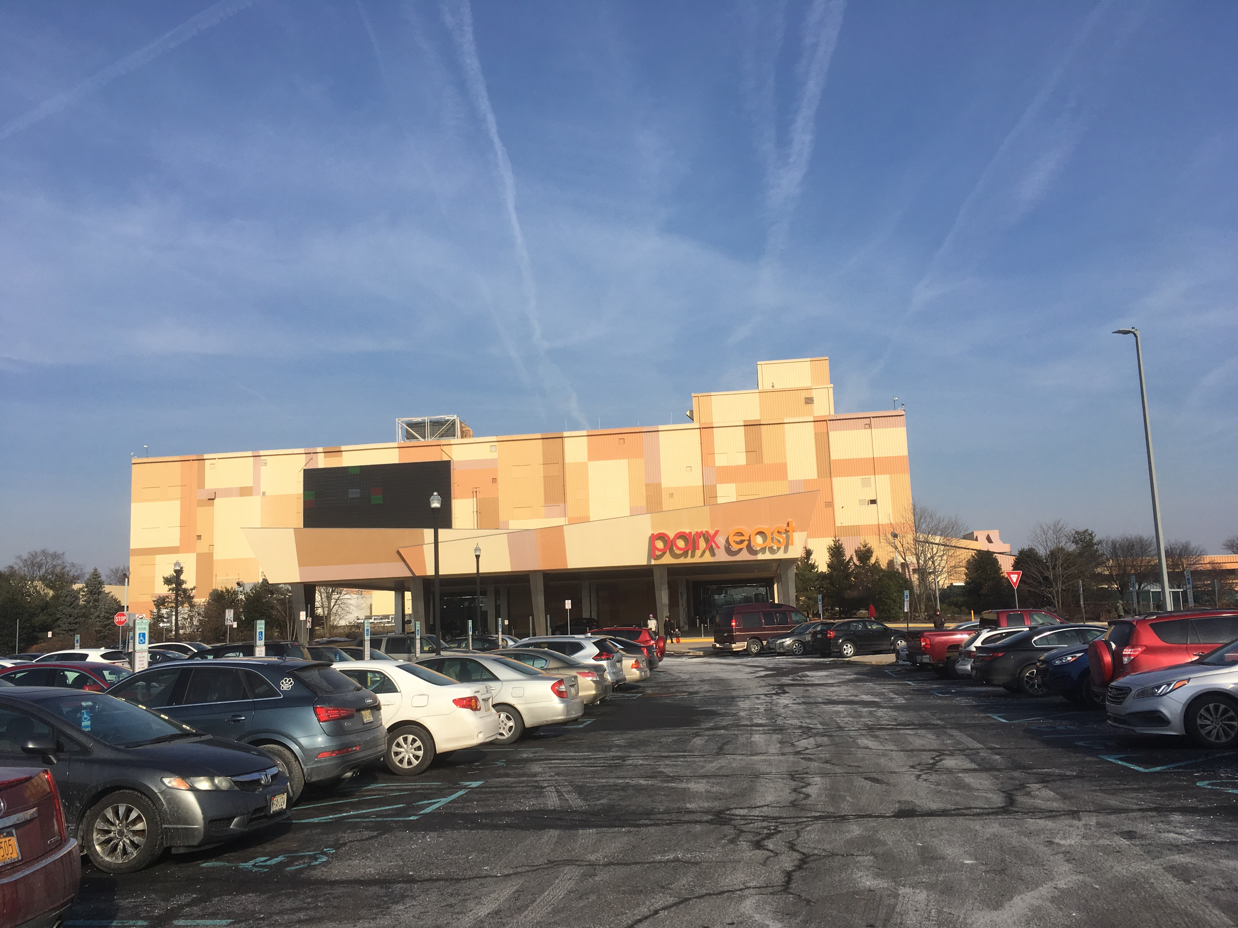 The entrance to Parx East at Parx Casino and Racing in Bensalem Township, Pennsylvania